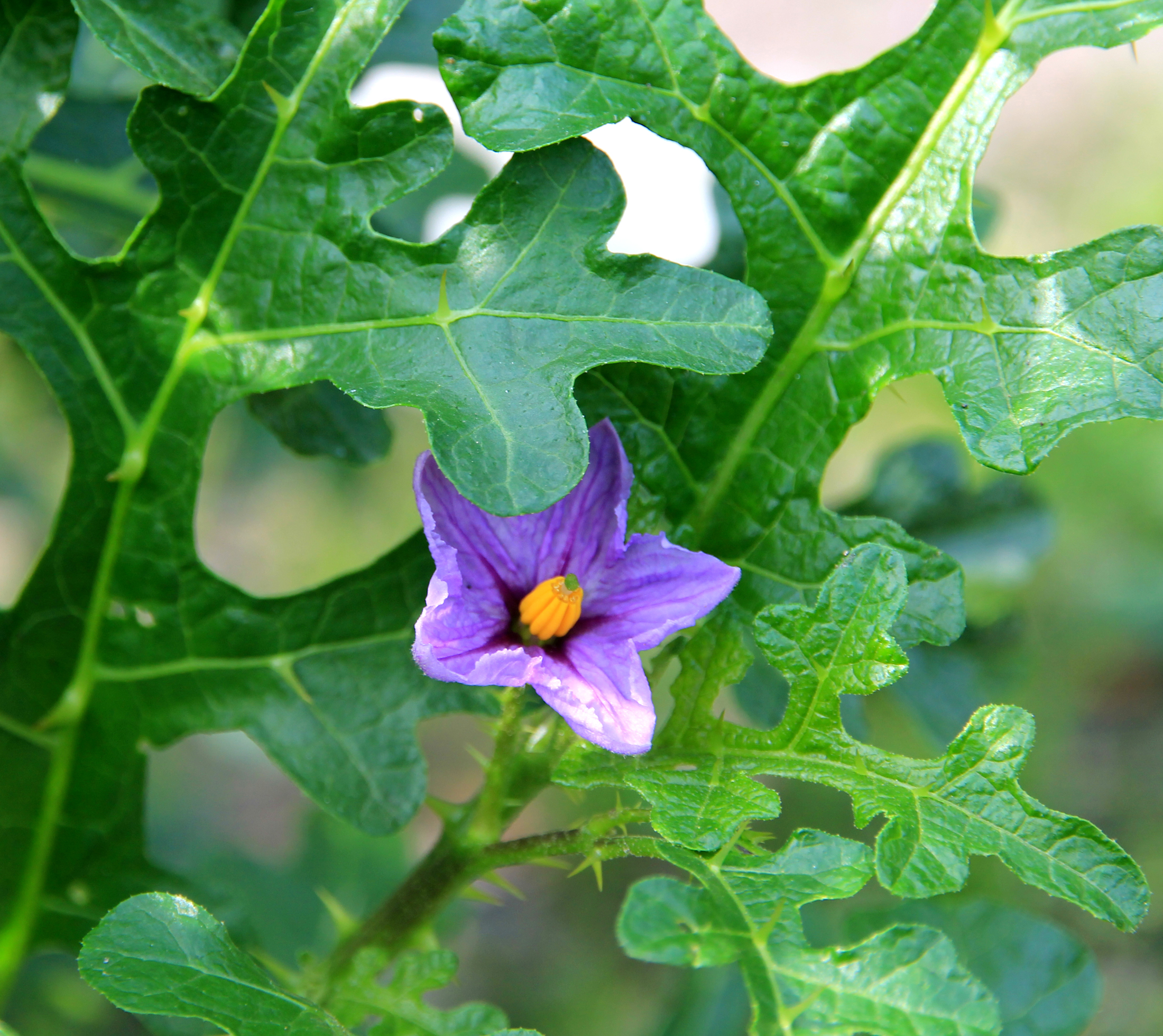 Flower of plant Solanum linnaeanum from the Botanical Gardens of Charles University, Prague, Czech Republic